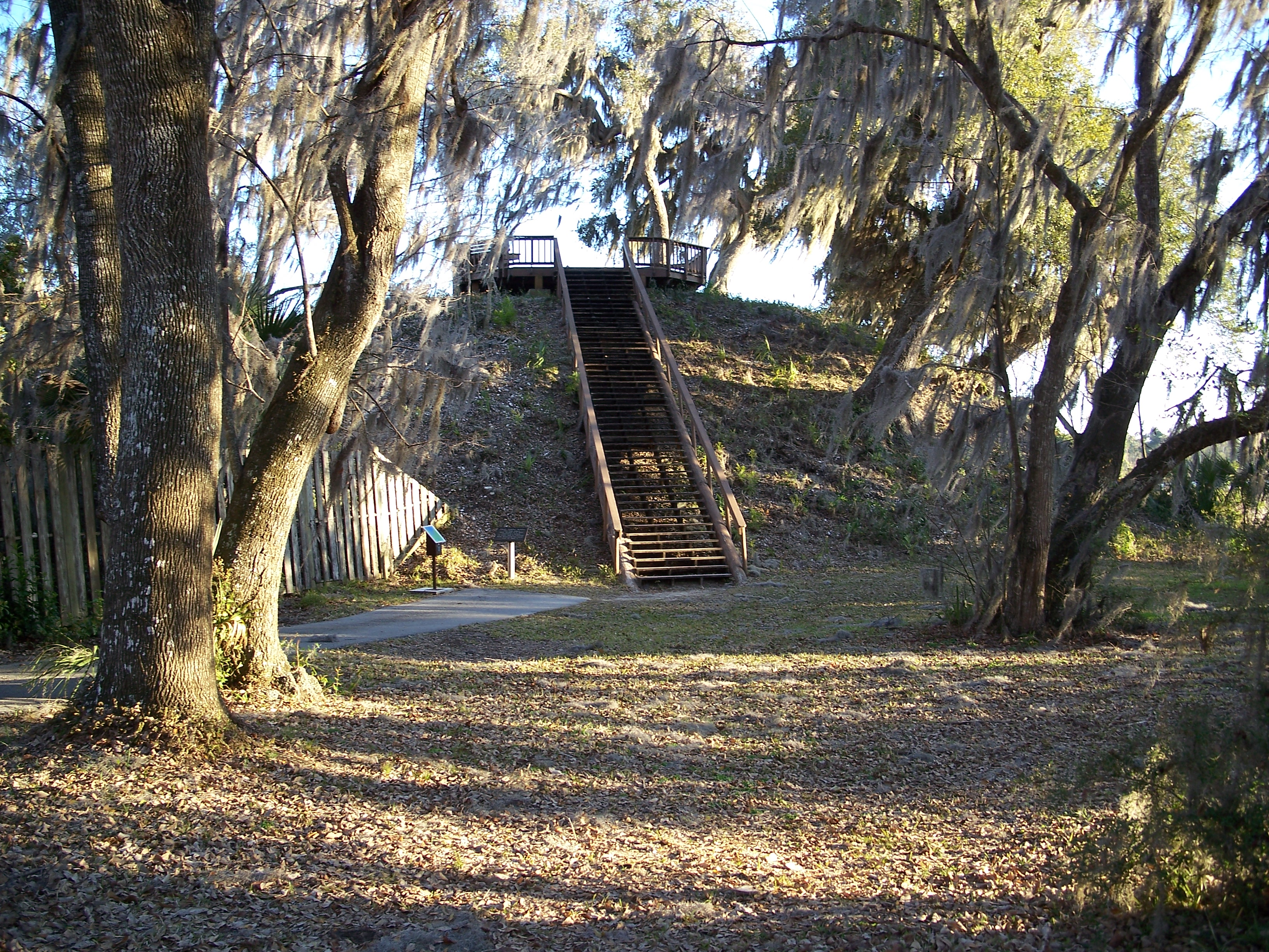 Temple mound in the Crystal River Archaeological State Park, in Crystal River, Florida